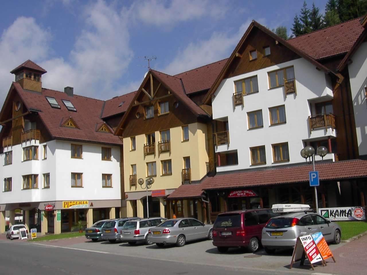 Rokytnice nad Jizerou, Czech Republic. The new Upper Square (Horní náměstí) in Horní Rokytnice.